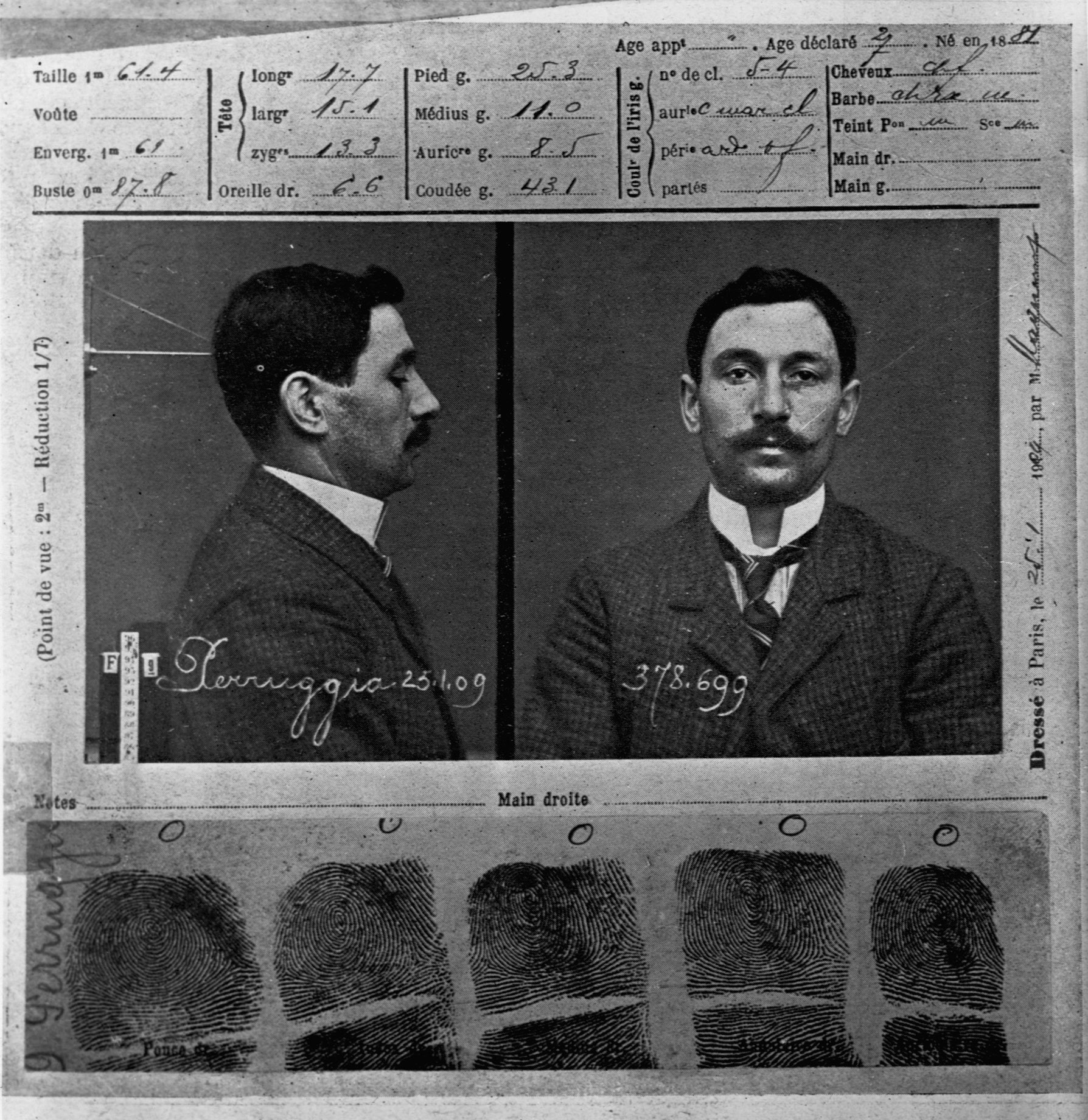 Mug shot of Vincenzo Perugia, the Italian man who stole the Mona Lisa out of the Louvre Museum in Paris.